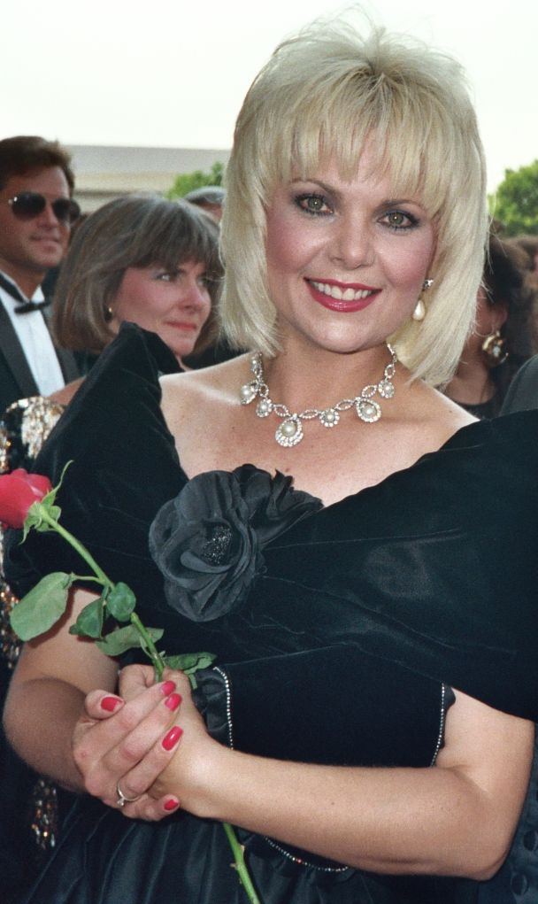 Ann Jillian at the 1988 Emmy Awards